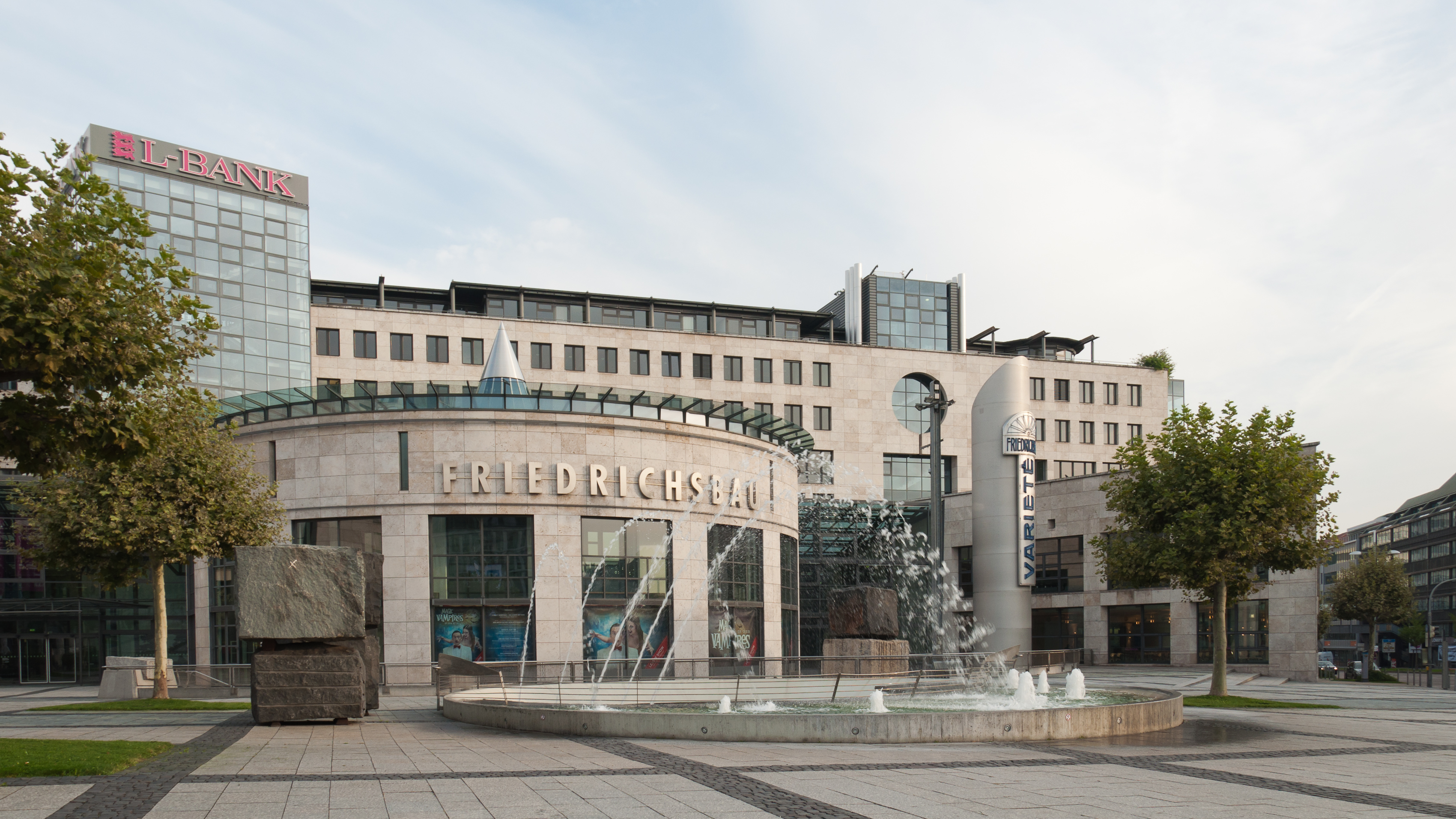 Friedrichsbau und Variete auf dem Börsenplatz in Stuttgart.